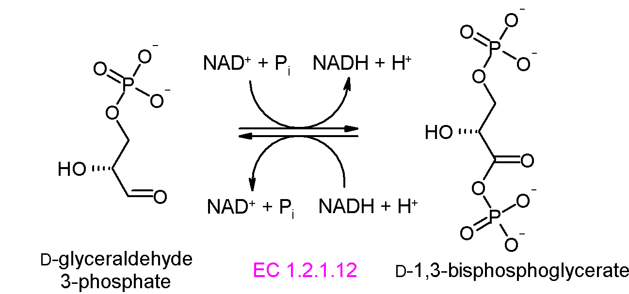 Glycolysis, GADP-1,3BPG